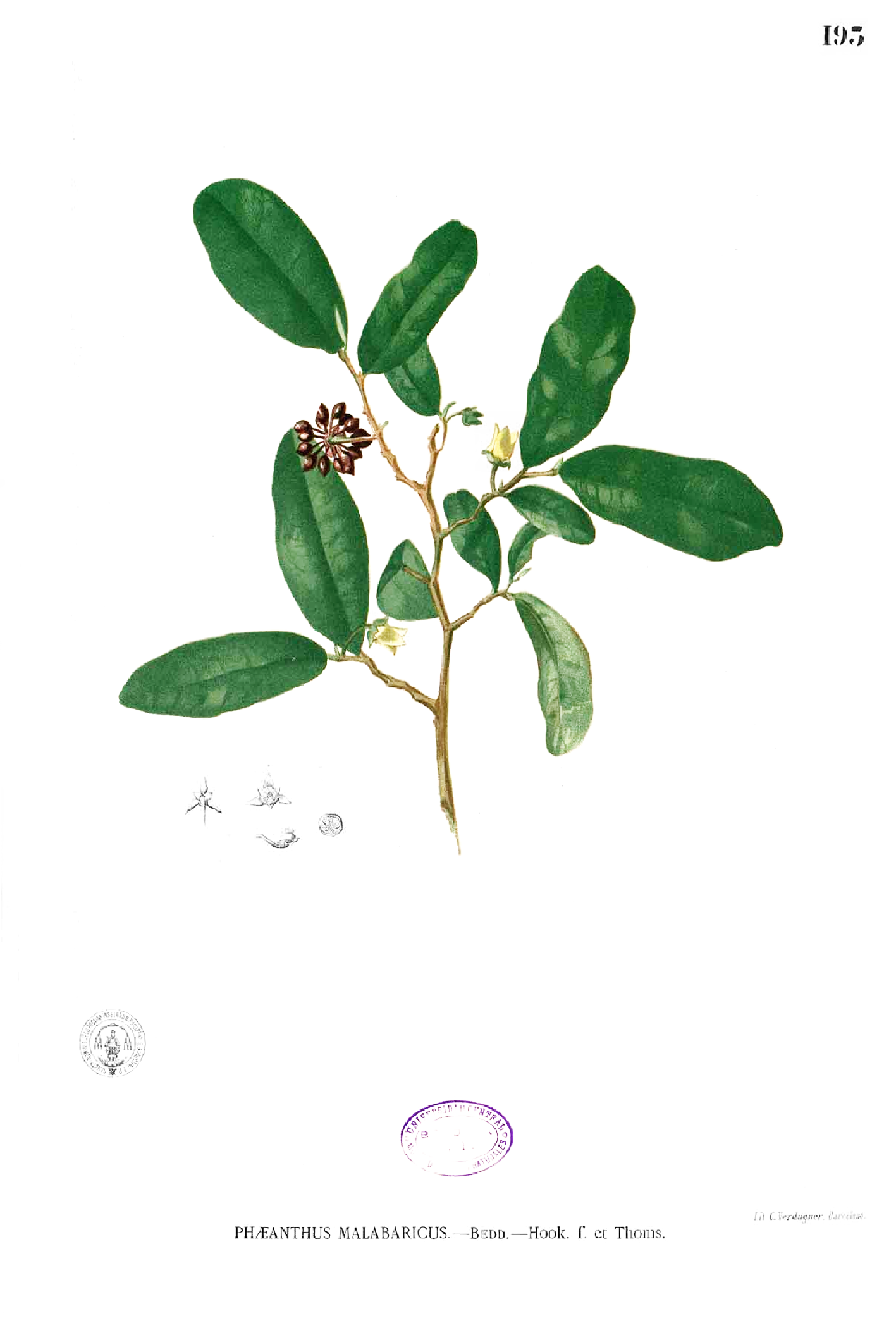 Plate from book